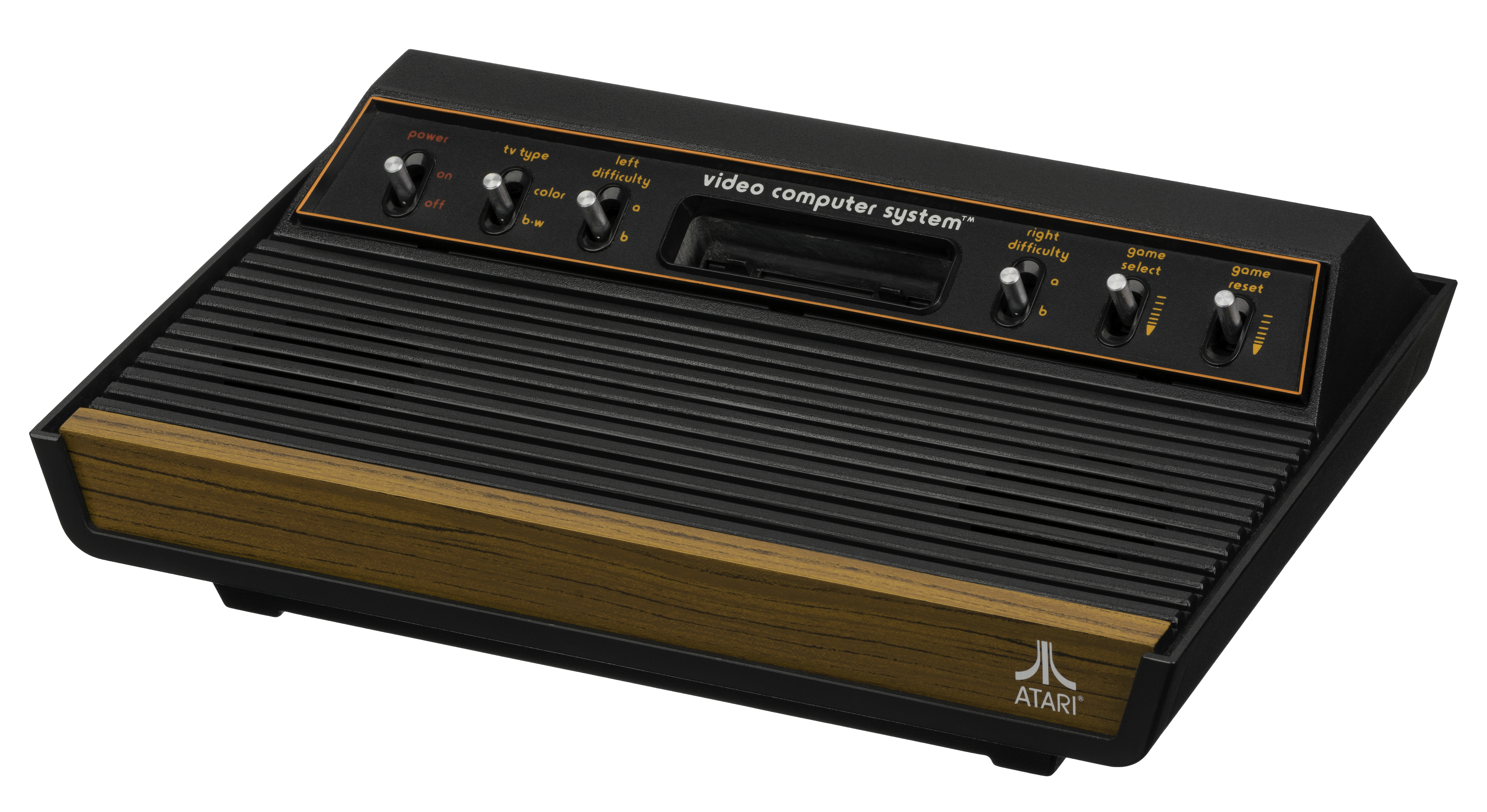 The Atari 2600, a video game console released by Atari in 1977. Originally called the Atari Video Computer System, the system was the most popular gaming console of the late '70s and early '80s. This model is the "Light Sixer", which is the second 2600 model that featured six front switches, and heavy metal RF shielding.